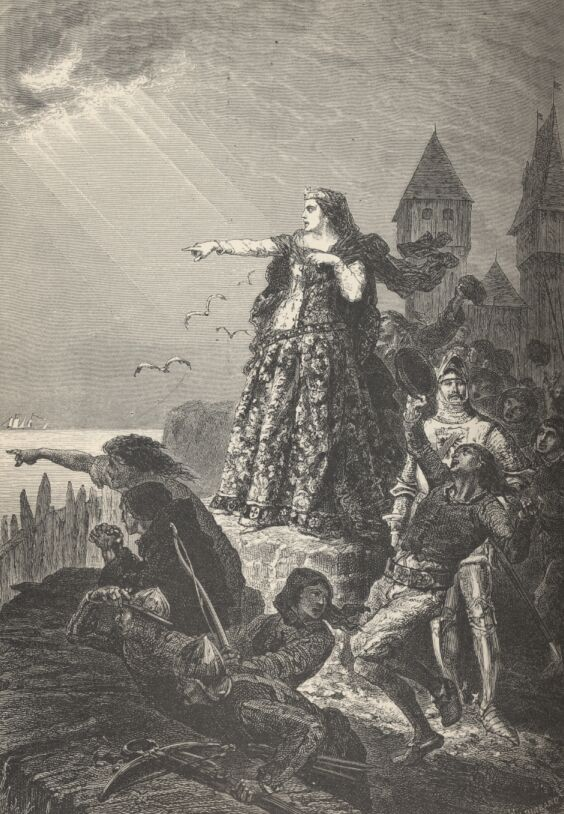 Joanna of Flanders at the relief of Hennebon, 1342